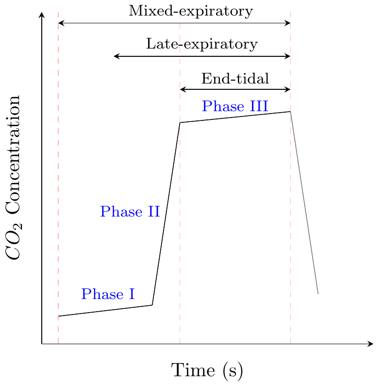 Plot showing the three portions of expired air as a function of time and CO2 concentration.